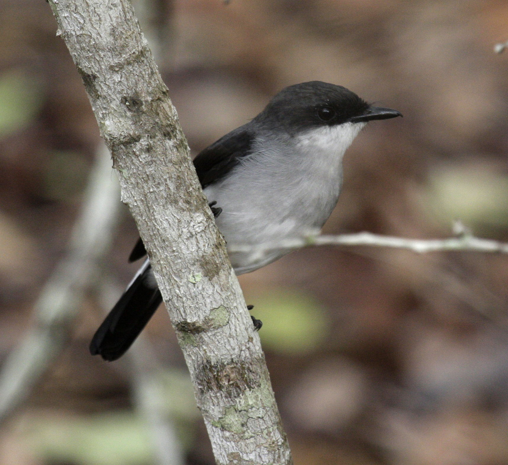 Mangrove Robin (Peneoenanthe pulverulenta) Portland Roads, Cape York, North Queensland, Australia